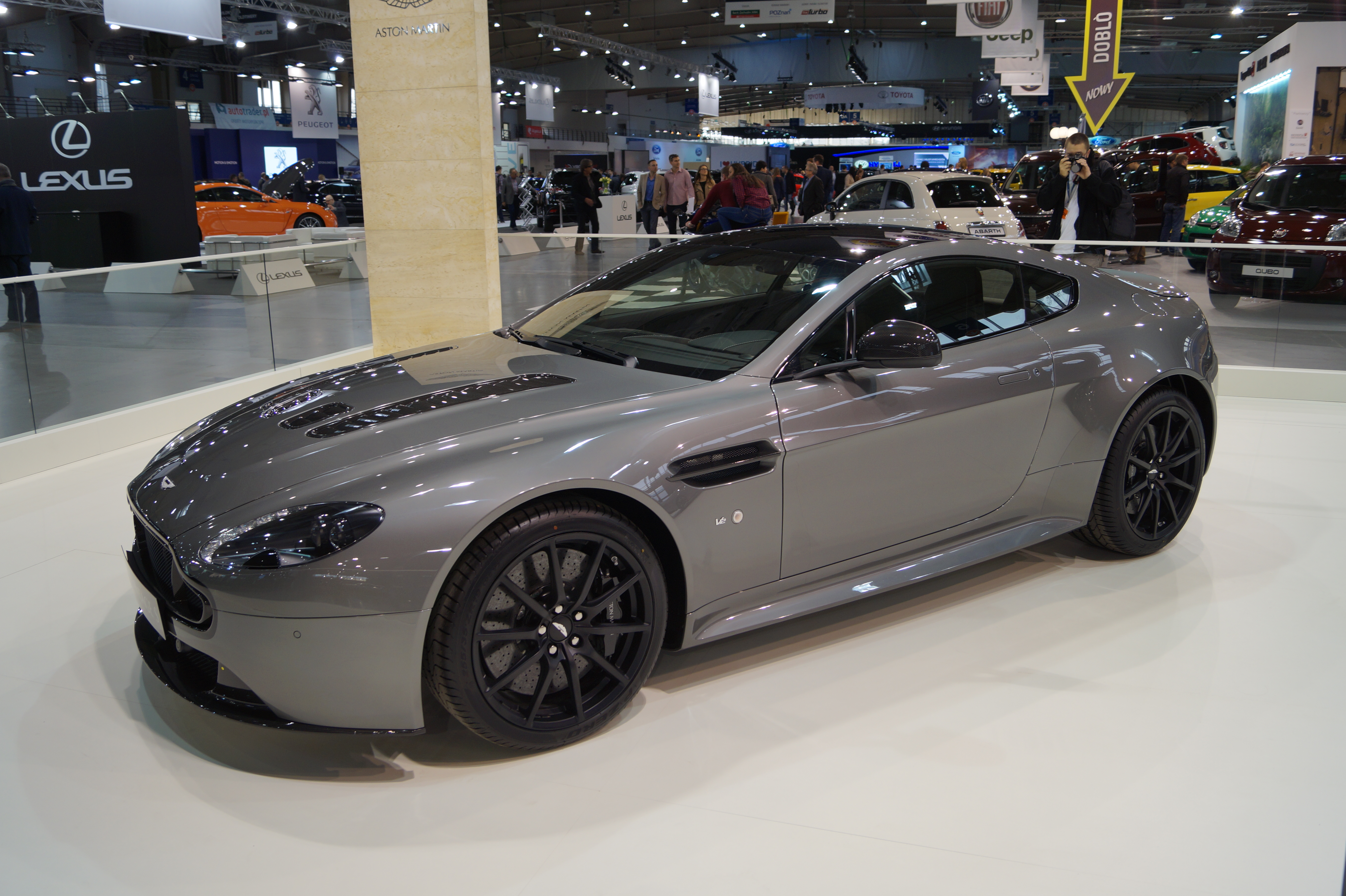 The making of this document was supported by Wikimedia Polska Association, within Wikigrant no. WG 2015-19. Przód Astona Martin V12 Vantage S na Motor Show Poznań 2015